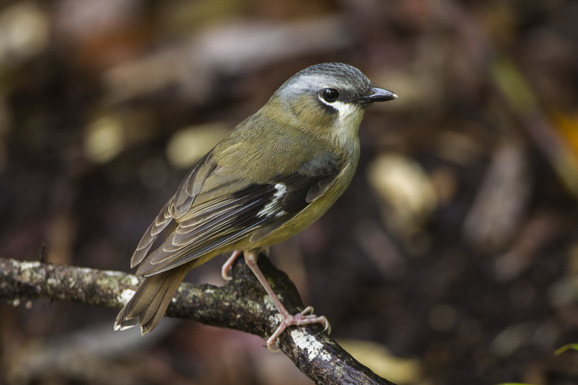 Gray-headed Robin - Cairns - Queensland_S4E8463